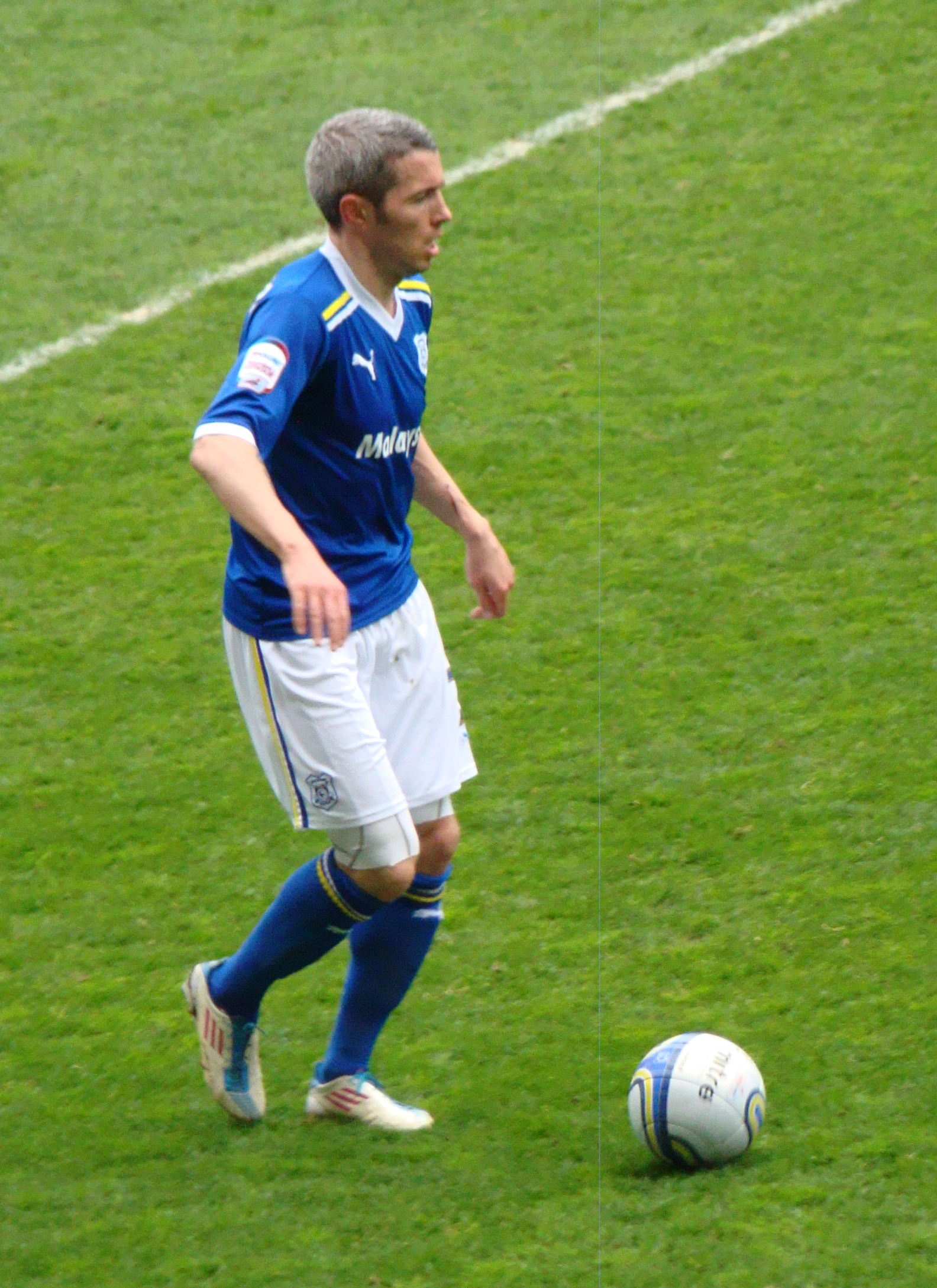 31/03/12 Cardiff v Millwall, Championship, Cardiff City Stadium, Cardiff, Wales. Kevin McNaughton.